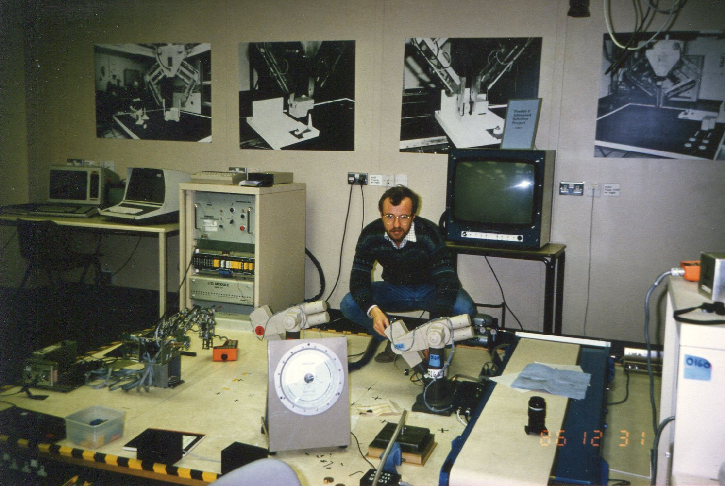 Freddy 3 Westinghouse project at Turing Institute with Peter Mowforth